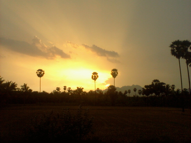 This photo was taken at the thovalai my native place,it seems a wonderful scenery in the evening